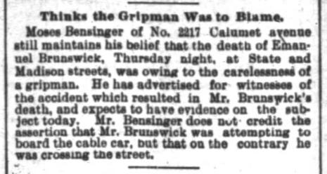 Ad in the Chicago Tribune from 19 December 1892 of Emanuel Brunswick's accident .